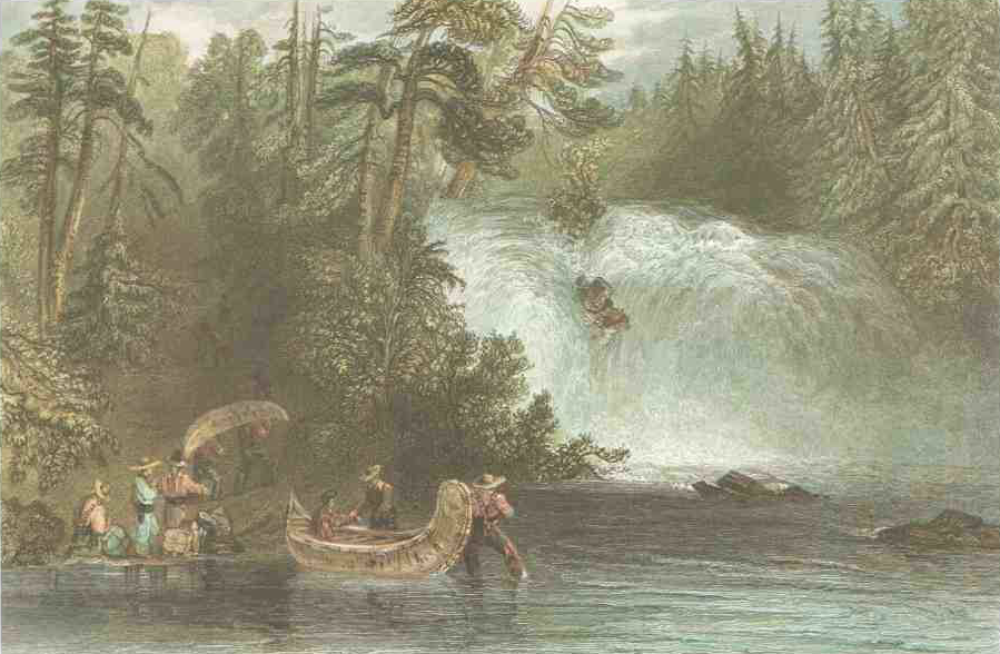 An engraving of Chats Falls (Portage des Chats) on the Ottawa River, Canada, as it appeared in the early 19th century. Original is a steel engraving on chine collé, on wove paper, 27.1 x 33.7 cm with plate 22.8 x 29.2 cm.